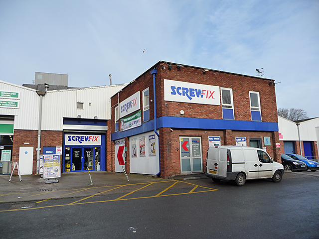 The first Screwfix Trade Counter